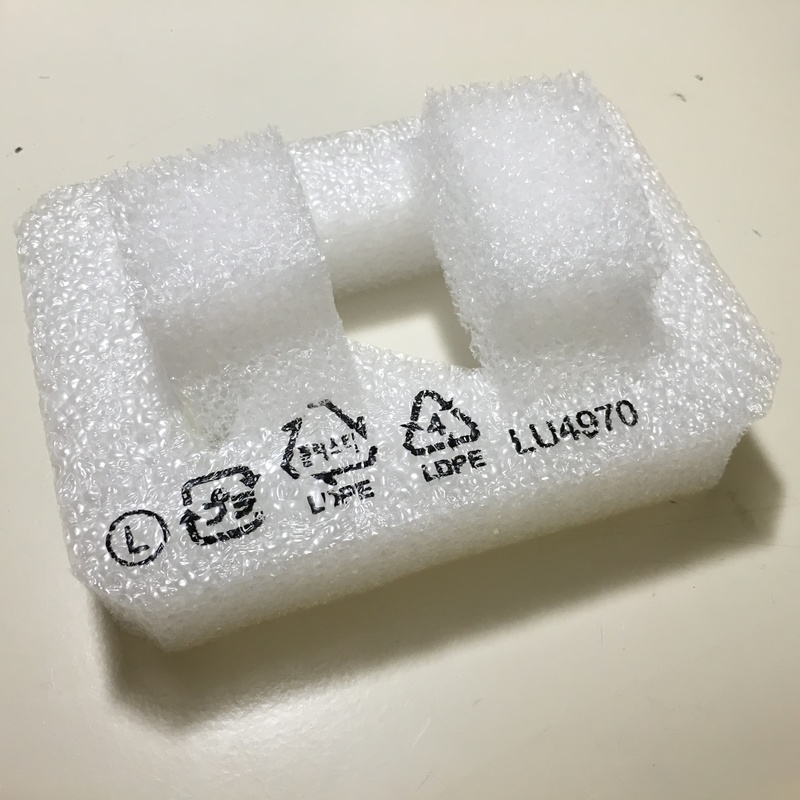 A piece of packaging foam made from low-density polyethylene